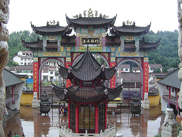 The front gate of a temple at Mt. Jiuhua in China's Anhui province -- bright version. Edited to improve viewing at small size.